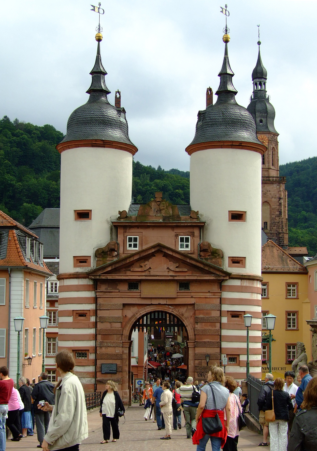 Gate of the Old Bridge (Carl Theodor Bridge), Heidelberg, Germany, seen from the side of the bridge